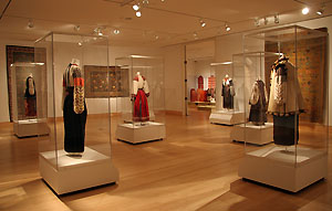 Exhibition view of the Tree of Life, the Sun, the Goddess: Symbolic Motifs in Ukrainian Folk Art (2005-06) at The Ukrainian Museum.